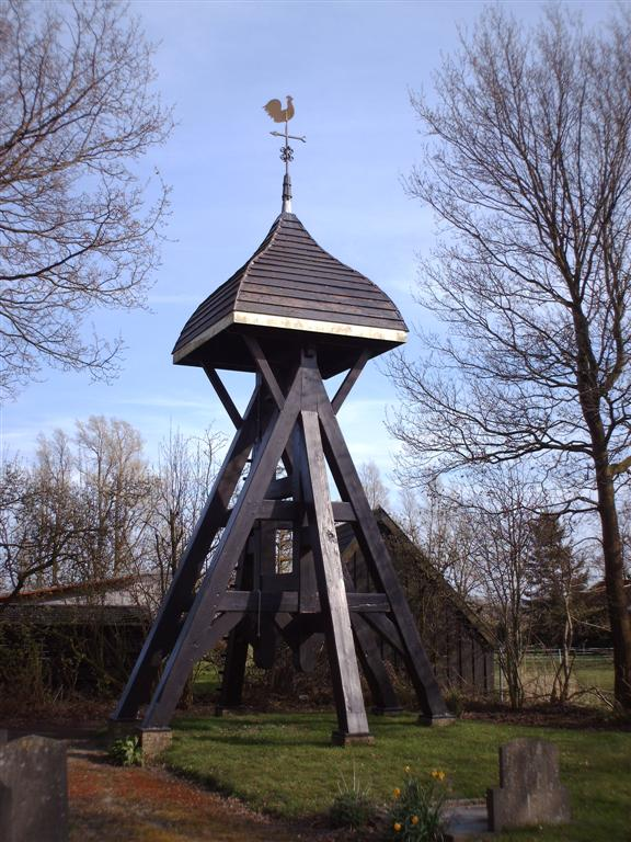 wooden bell tower in Nijeholtwolde, Friesland, Netherlands